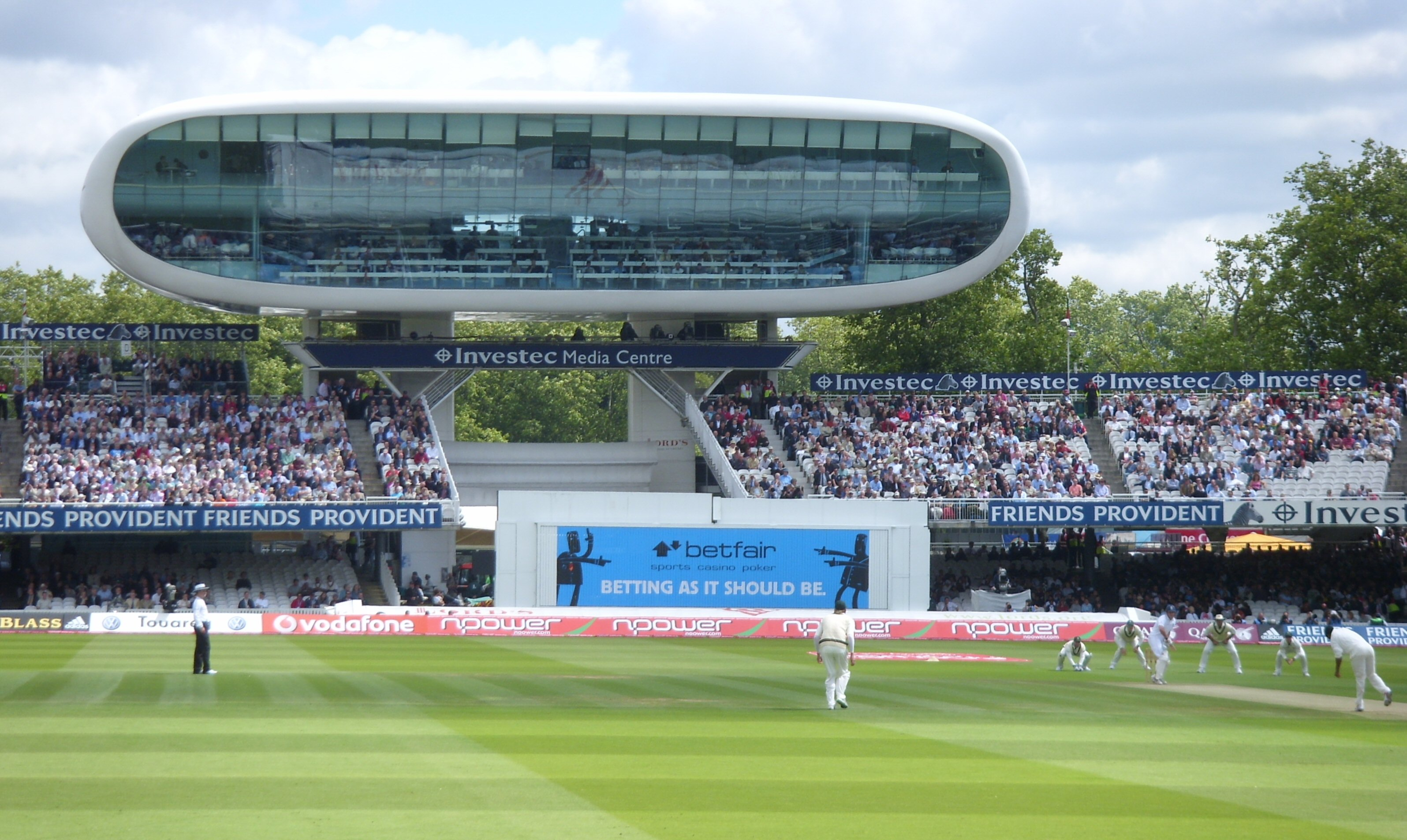 The Media Centre at Lord's Cricket Ground